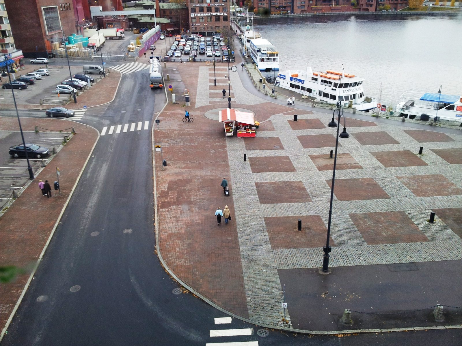 Laukontori market square in Tampere, Finland.